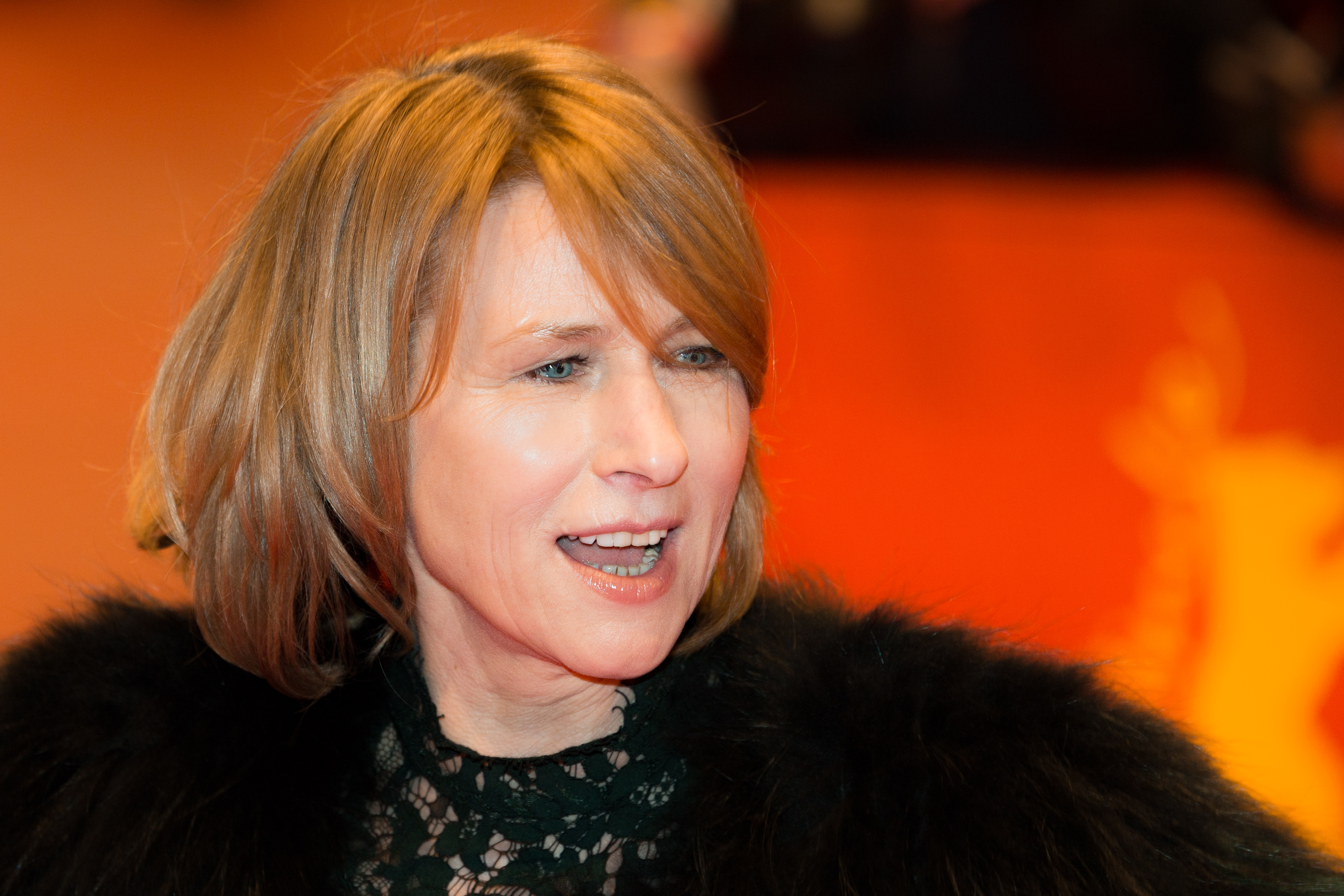 Corinna Harfouch on the red carpet of the Berlinale 2017 opening film